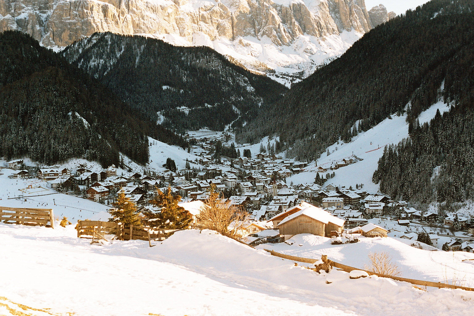 The village of Selva in Val Gardena, Dolomites, Italy. Photographed by myself in early January 2005.